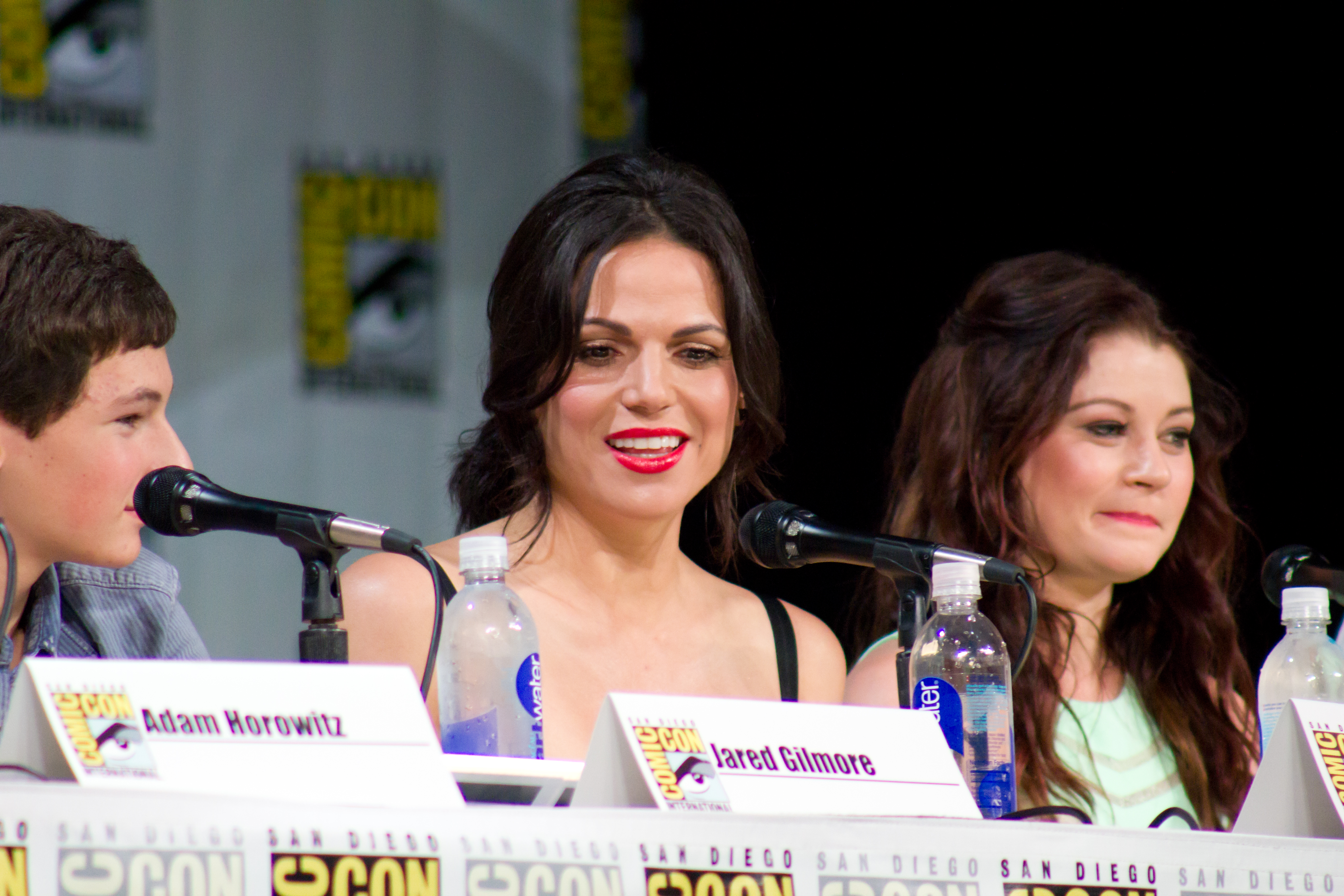 Jared Gilmore, Lana Parrilla & Emilie de Ravin Once Upon a Time Panel at the 2014 Comic-Con International.